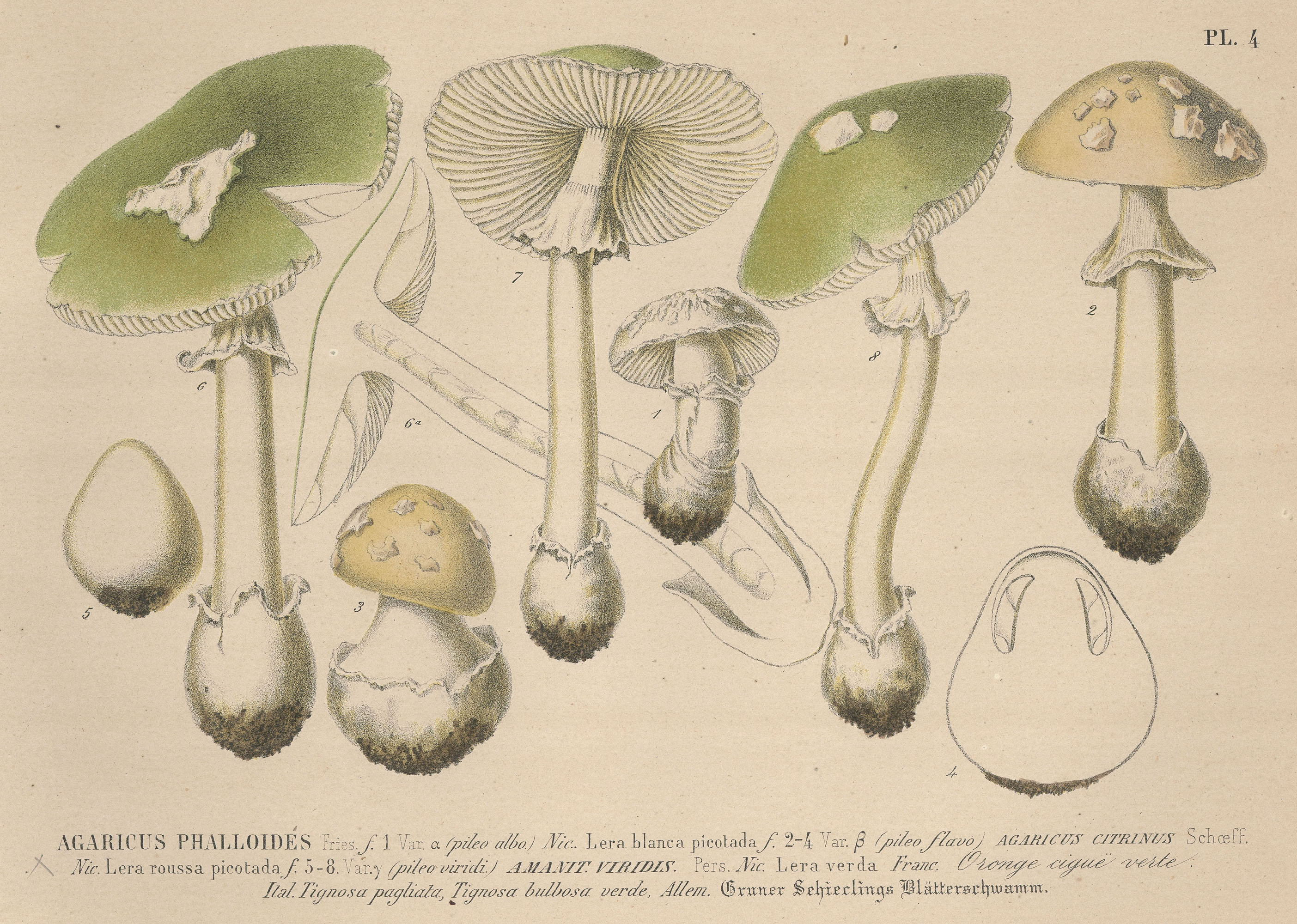 Les Champignons De La Province De Nice Agaricus late